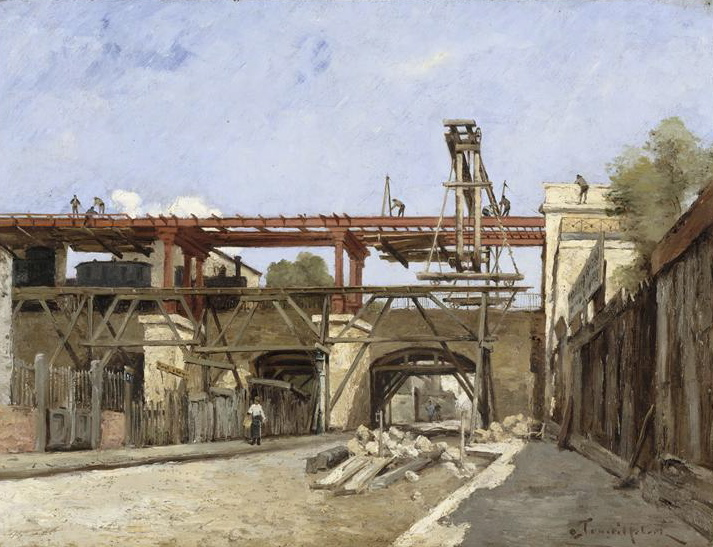 Painting by Paul Désiré Trouillebert : Les Travaux de relèvement du chemin de fer de ceinture, le pont de la rue de la Voûte. Coll. Musée d'Orsay, Paris